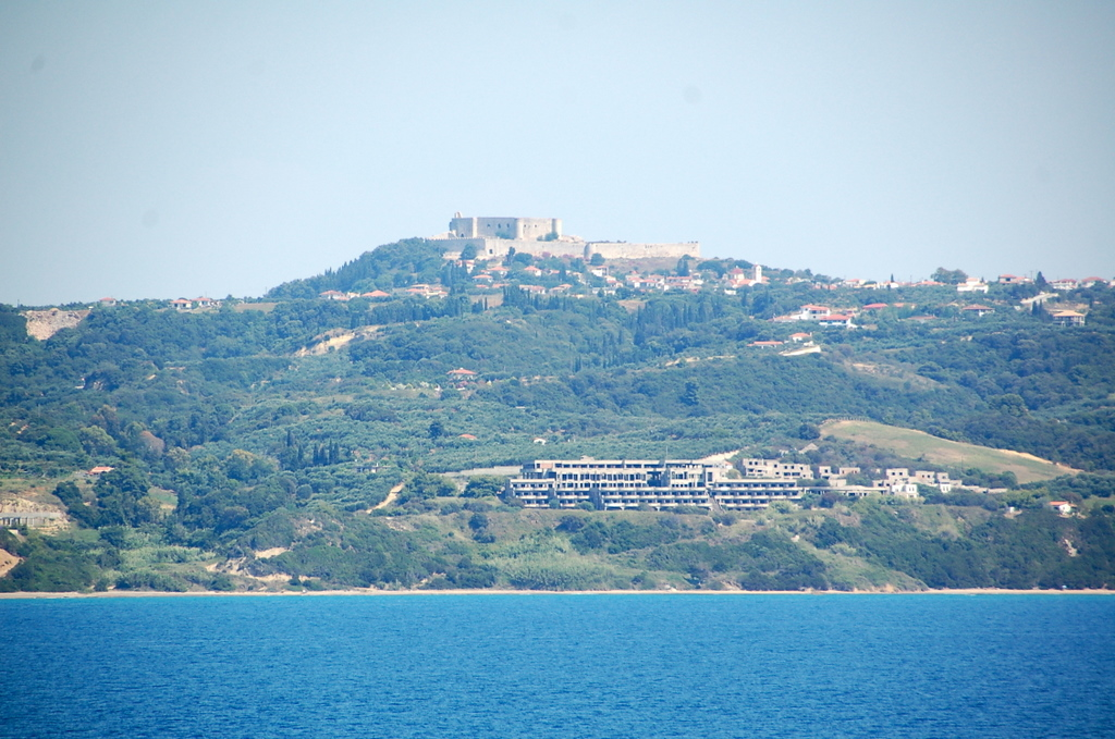 The 800-year-old Frankish castle of Chlemoutsi dominates the skyline as the ferry from Kyllini to Zakynthos sets off on its crossing.